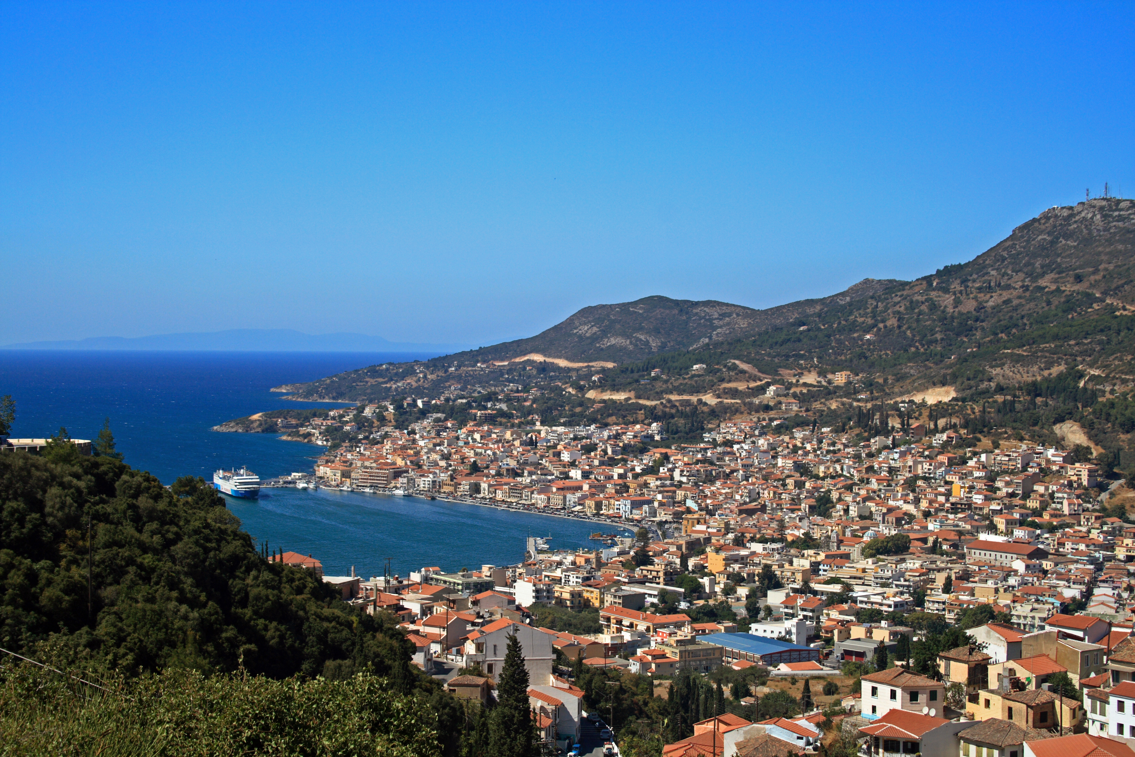 View of Samos town, capital of Samos island, Greece.